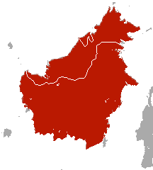 Long-footed Treeshrew (Tupaia longipes) range